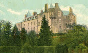 Kenmure Castle, New Galloway, Kirkcudbrightshire